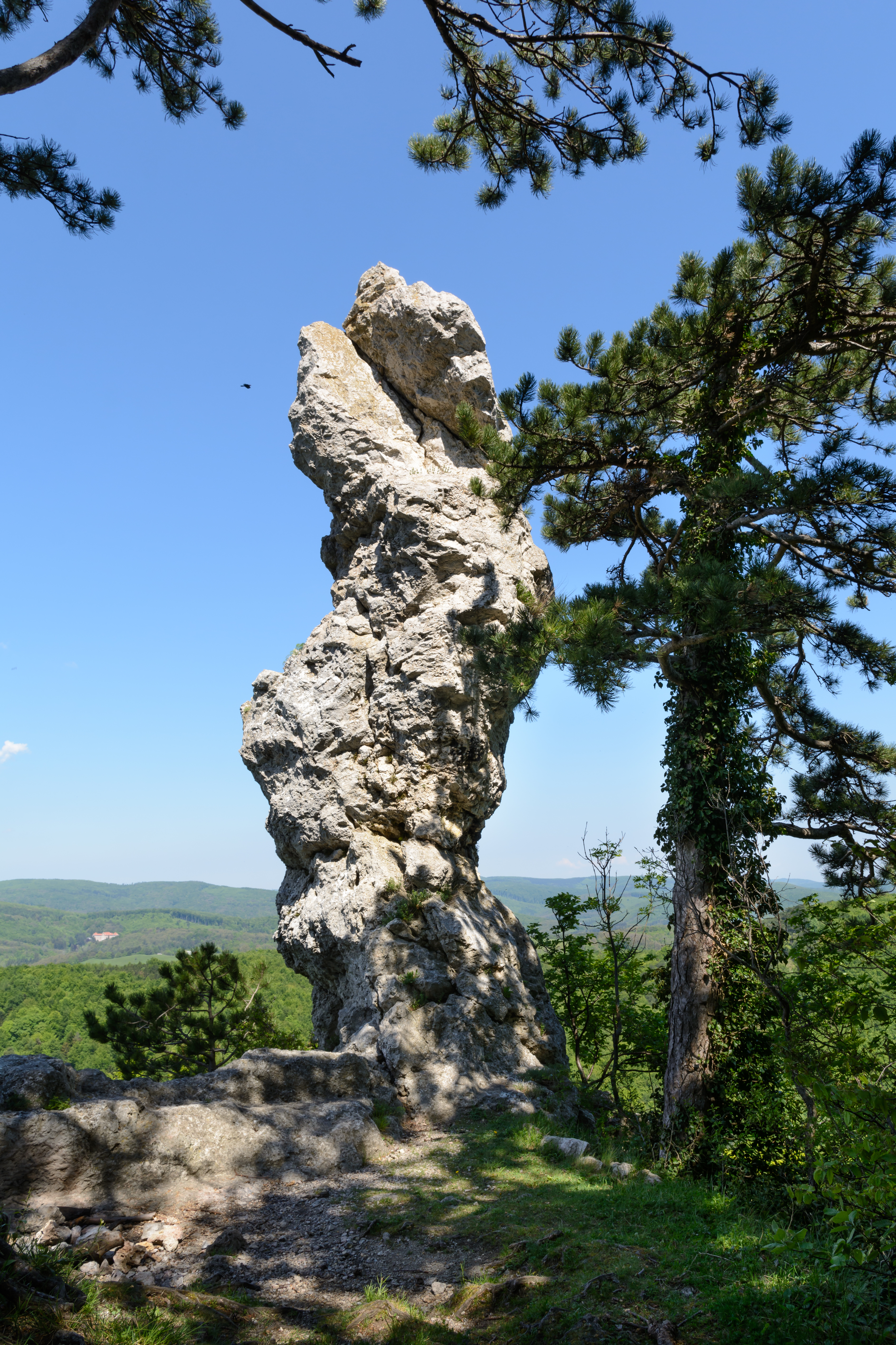 The so-called Arnstein needle next to the castle ruins of Arnstein on the Peilstein mountain, Lower Austria